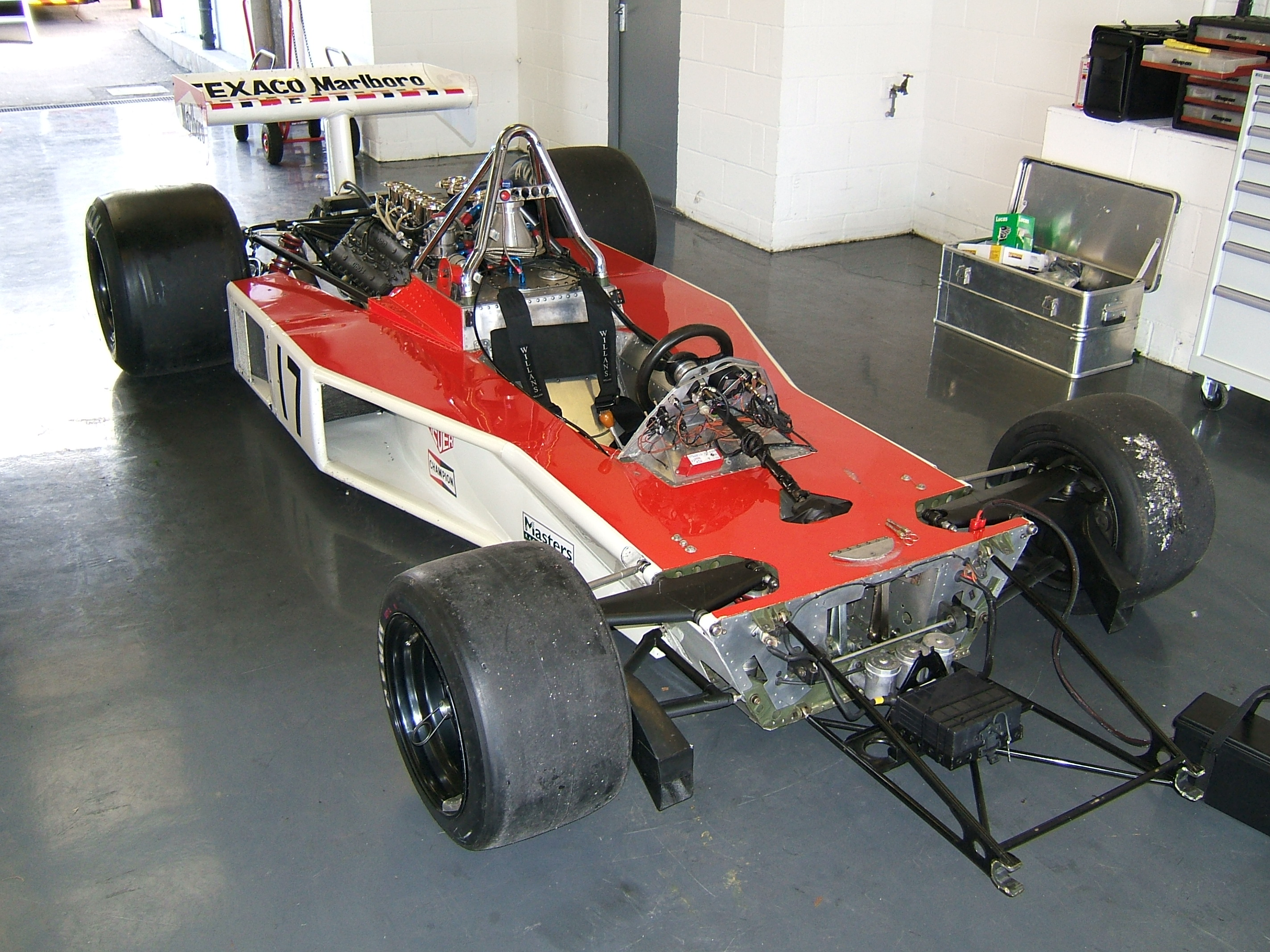 A McLaren M23 with most of its bodywork removed. Photographed in the pit garages at Silverstone Circuit during the Silverstone Classic race meeting, July 2007.